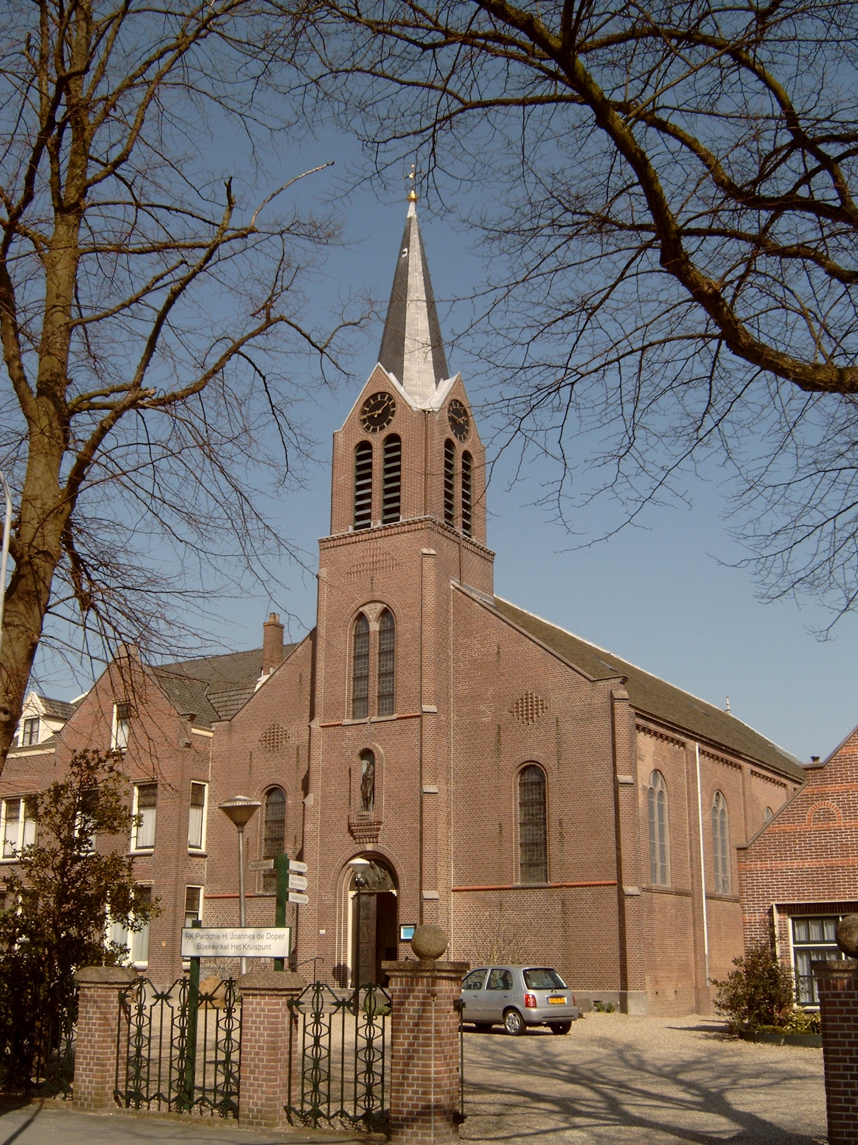 Hoofddorp, Roman Catholic church H. Joannes de Doper (St. John the Baptist)